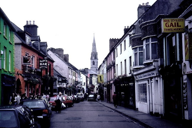 Ennis - O'Connell Street